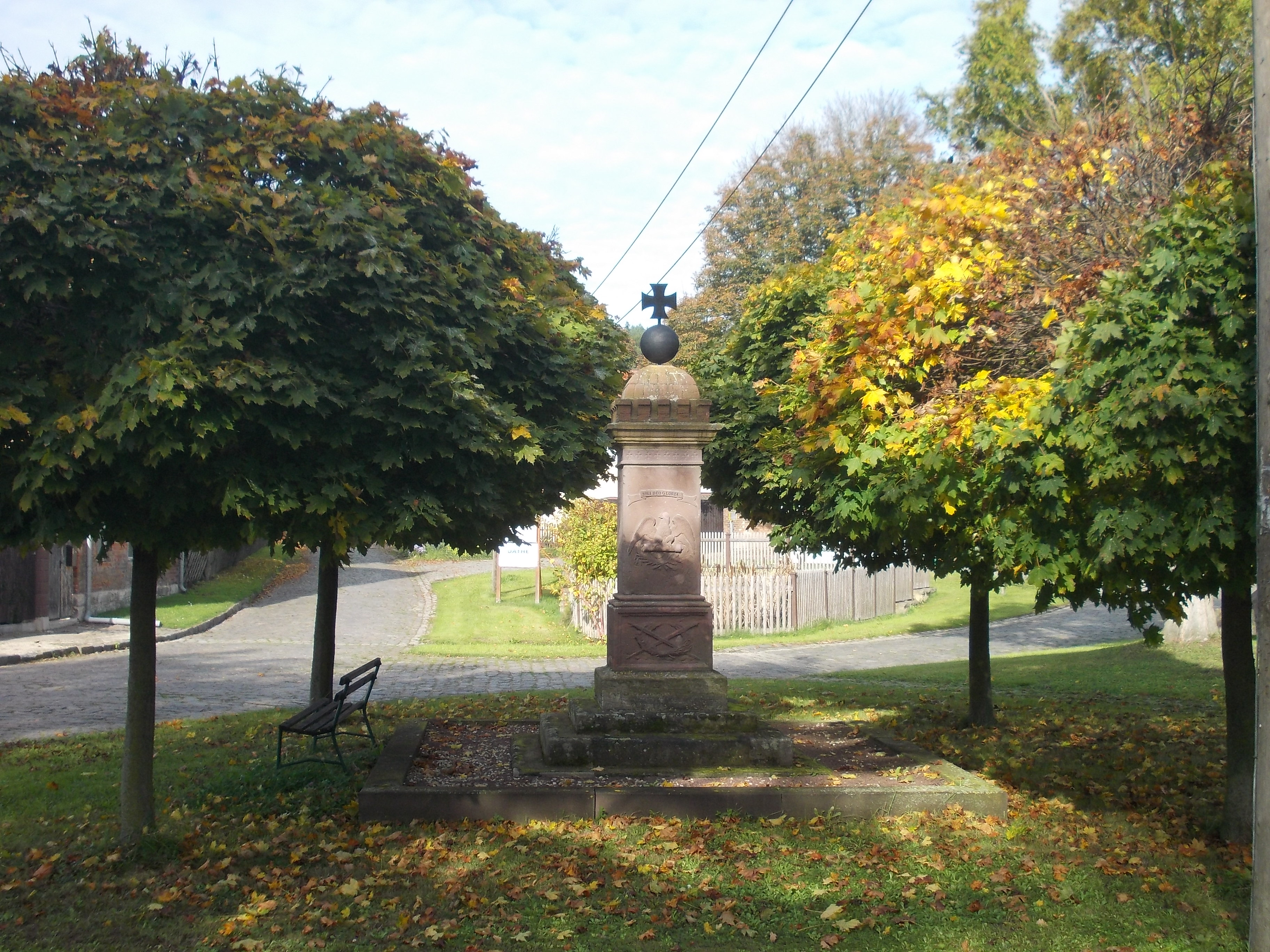 War memorial in Pödelist (Freeyburg/Unstrut, district: Burgenlandkreis, Saxony-Anhalt)